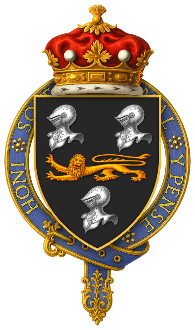 Coat of arms of William Compton, 4th Marquess of Northampton, KG, as displayed on his Order of the Garter stall plate in St. George's Chapel, viz. Sable a lion passant guardant or, between three esquires' helmets argent (Compton).